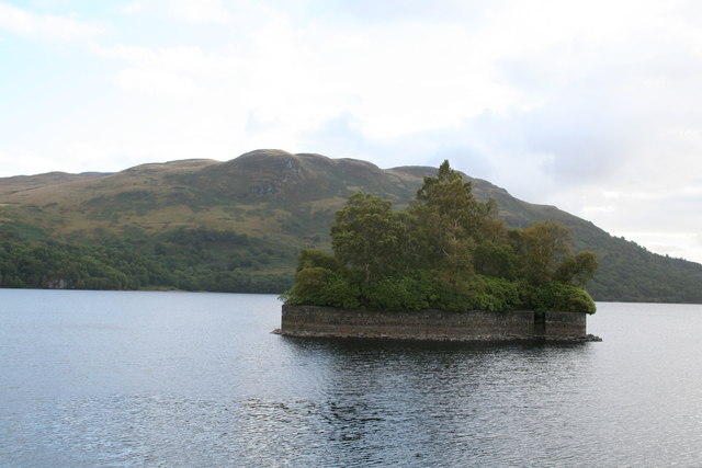 Factor's Island, Loch Katrine. In the course of his long-running dispute with the Duke of Montrose, the well-known historical figure Rob Roy once imprisoned the Duke's factor (who acted as agent and rent collector) on this island, also known as Eilean Dharag. The stone wall was added to protect the island when the water level in Loch Katrine was raised in connection with its use as a water supply for Glasgow, which it has been since 1859. 'Katrine' derives from the Gaelic 'cateran', meaning a Highland robber.